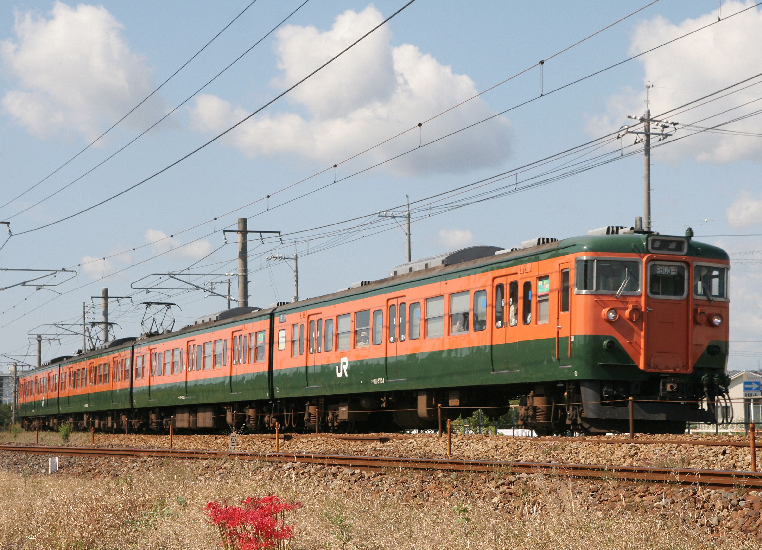 West Japan Railway 113 series B05